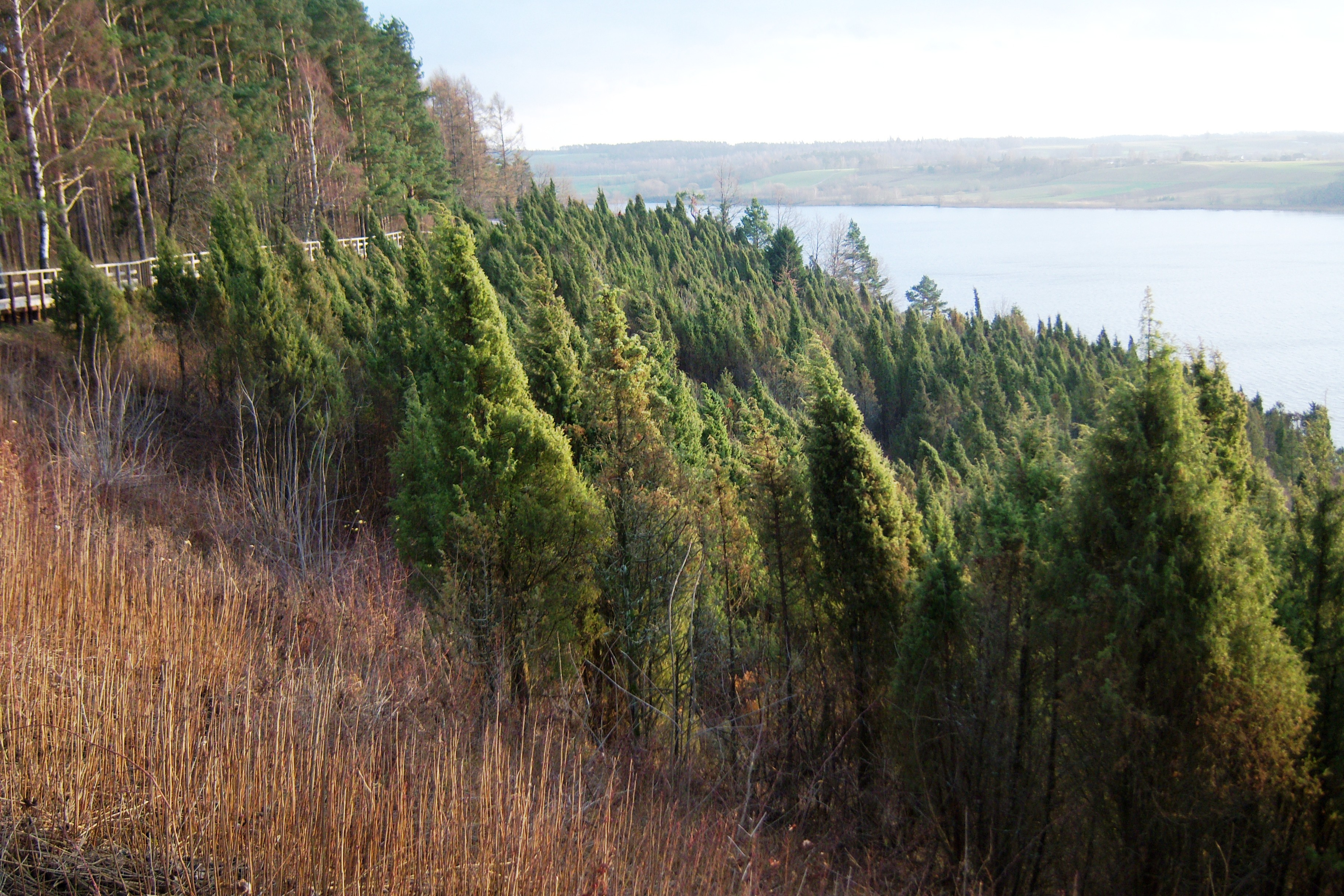 Juniper valley in late autumn on the shore of Kauno Marios reservoir, botanical reserve, Kaunas district, Lithuania